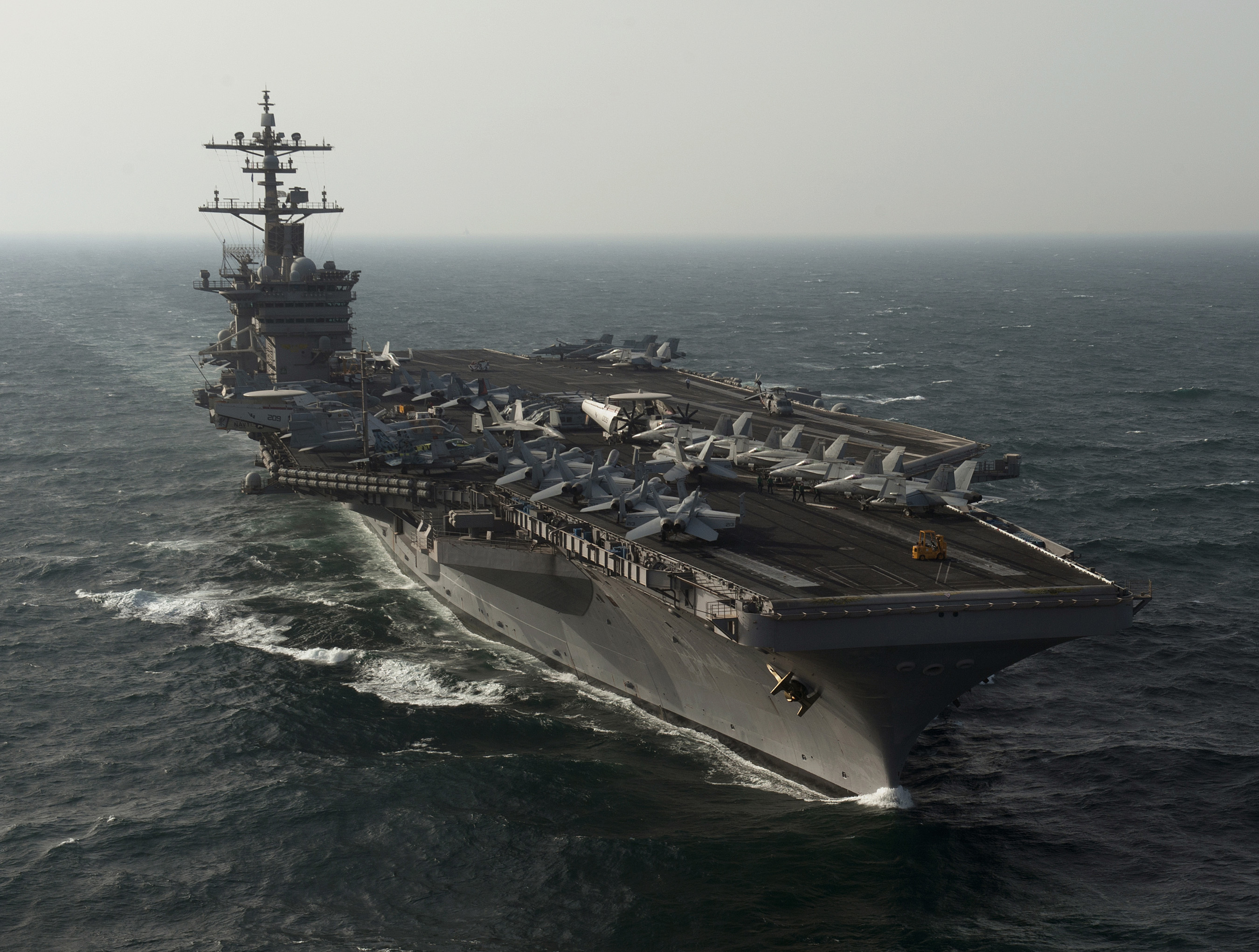 ARABIAN GULF (March 9, 2012) The Nimitz-class aircraft carrier USS Carl Vinson (CVN 70) is underway in the Persian Gulf. Carl Vinson and Carrier Air Wing (CVW) 17 are deployed to the U.S. 5th Fleet area of responsibility. (U.S. Navy photo by Mass Communication Specialist 2nd Class James R. Evans/Released) 120309-N-DR144-973